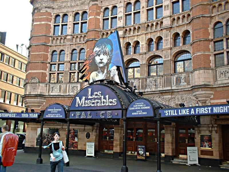 palace theatre. Taken by C Ford march 04.